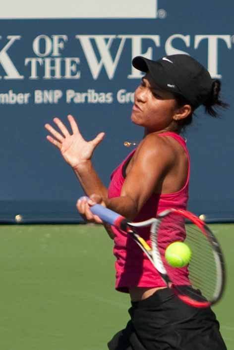 Hilary Barte at the 2010 Bank of the West Classic, first round